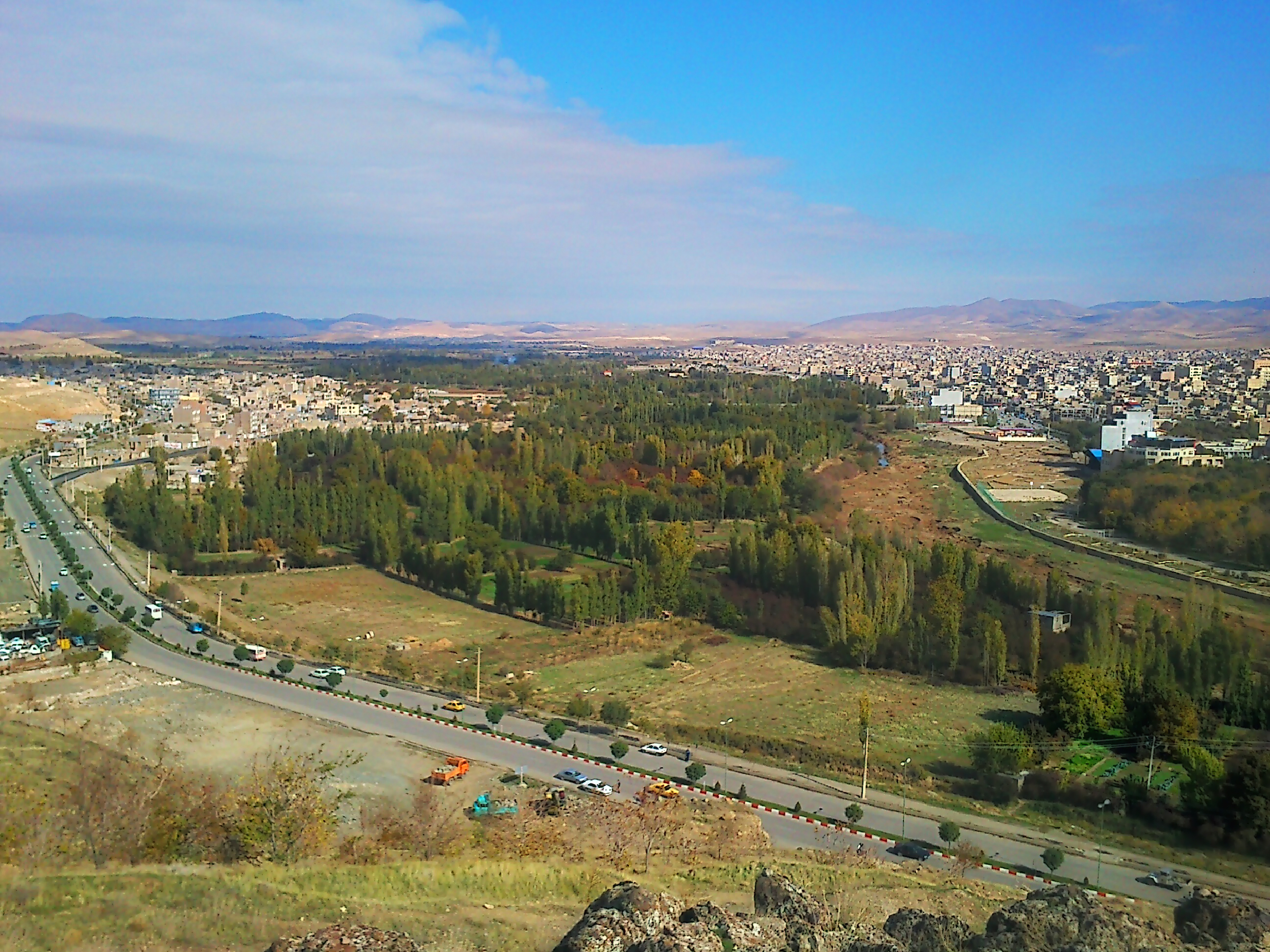 Garden AmirAbad Bukan City